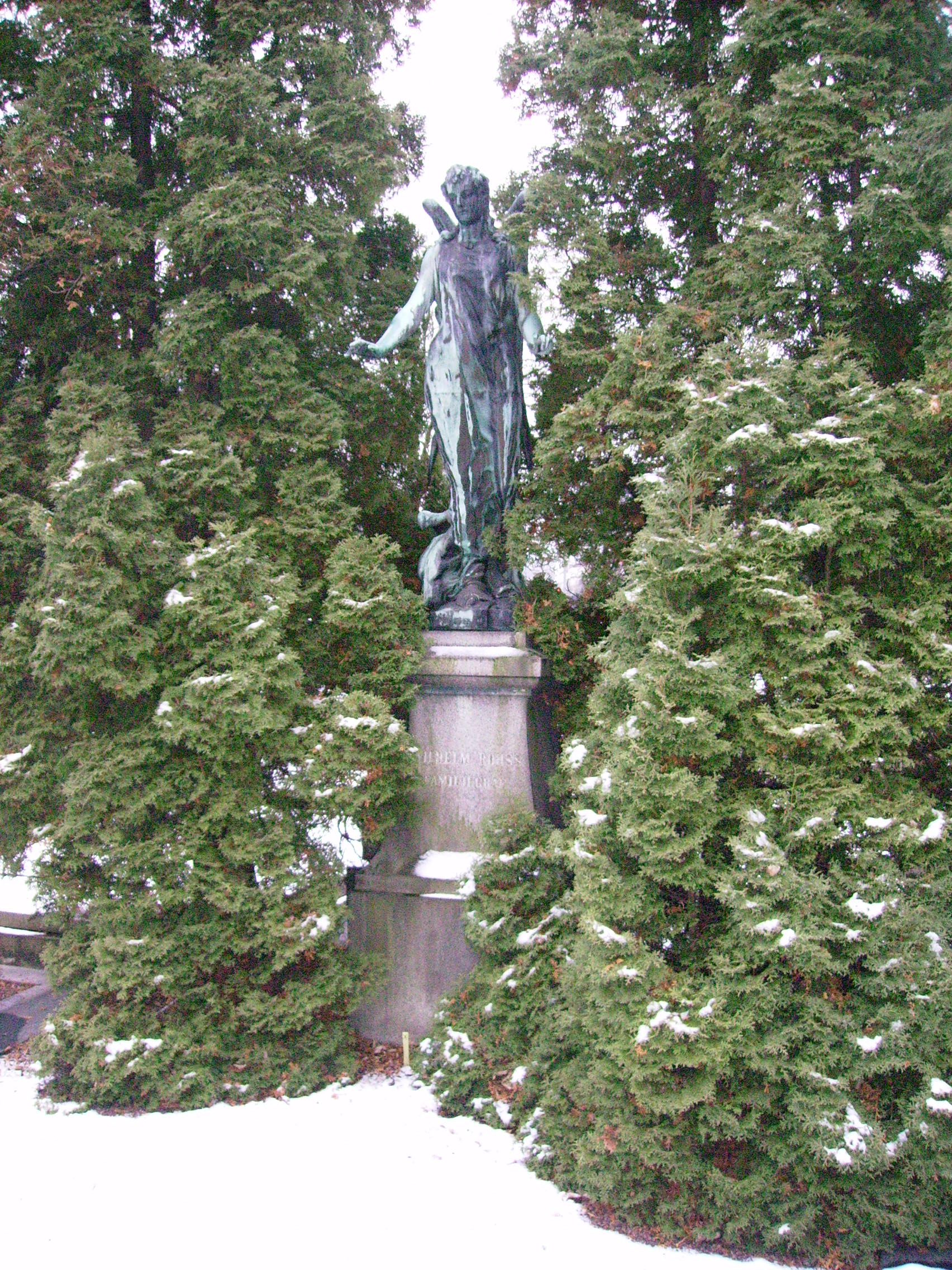 Picturte of Wilhelm Röhss grave in Gothenburg.